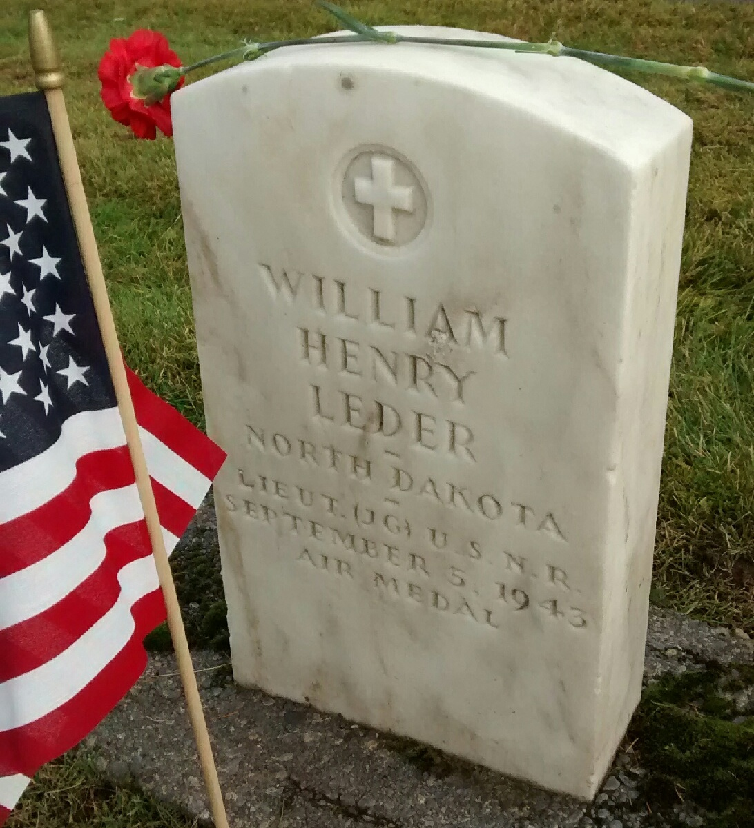 Memorial headstone of William H. Leder, pilot USNR in World War II